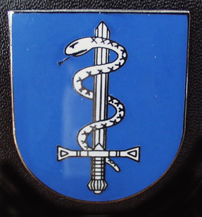 Staff & HQ Company 1st Medical Brigade